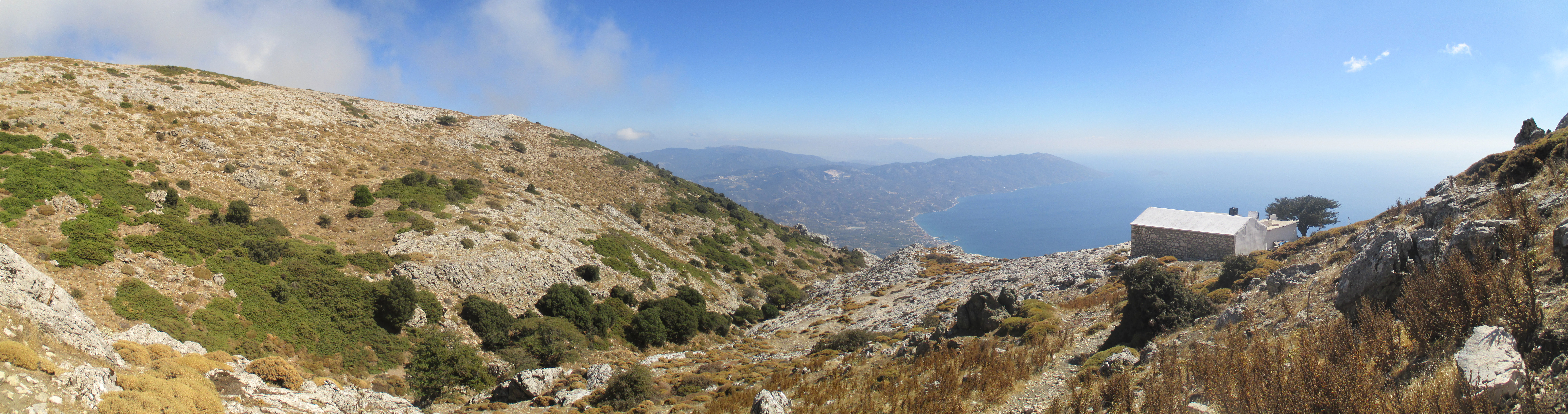 Mount Kerkis, Samos, Greece. View to Profitis Ilias chapel (1100 m) and south coast.